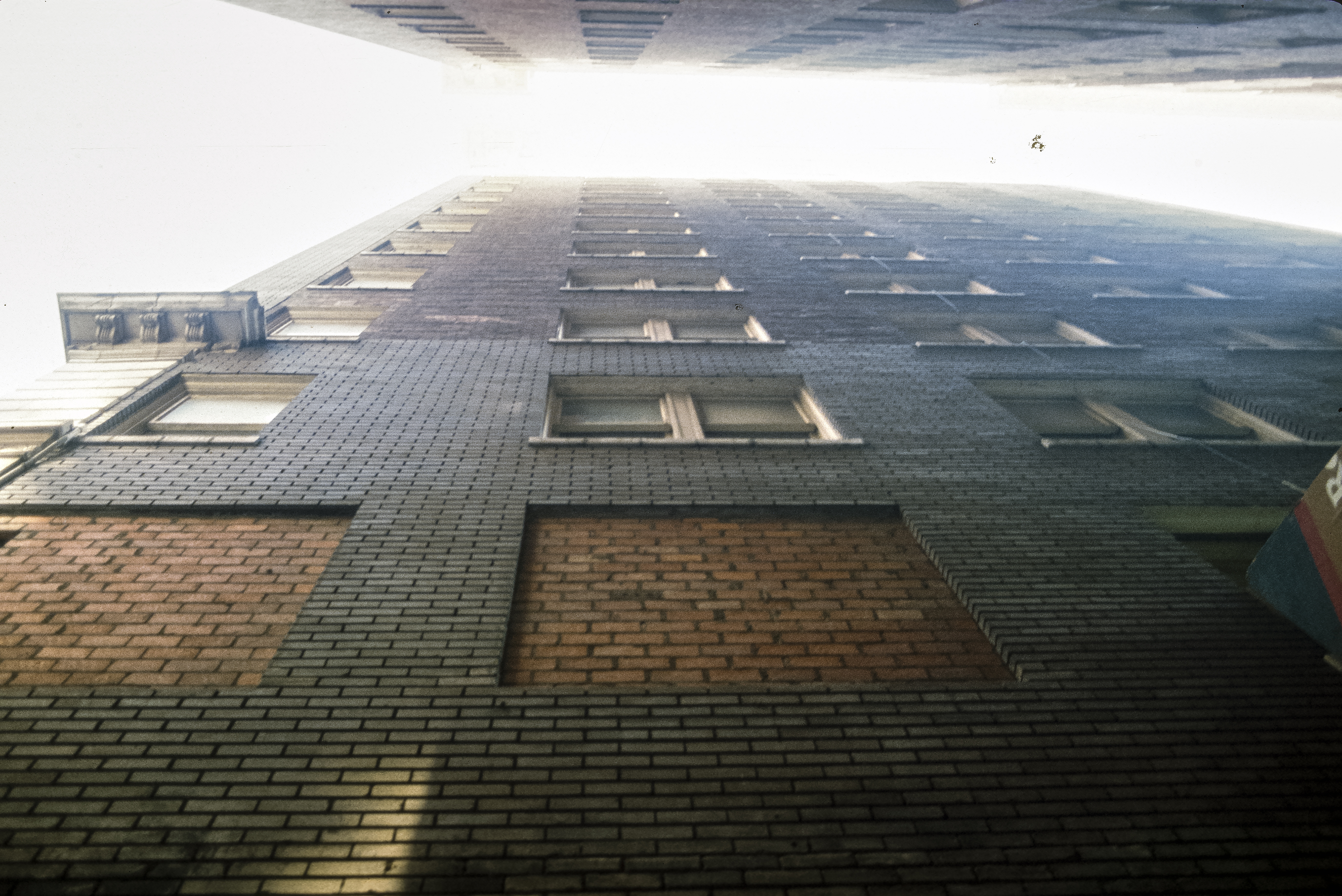 The narrow alley between the Winecoff Hotel and the Mortgage Guaranty Building, Atlanta, Georgia, USA. Scanned Ekatachrome slide.